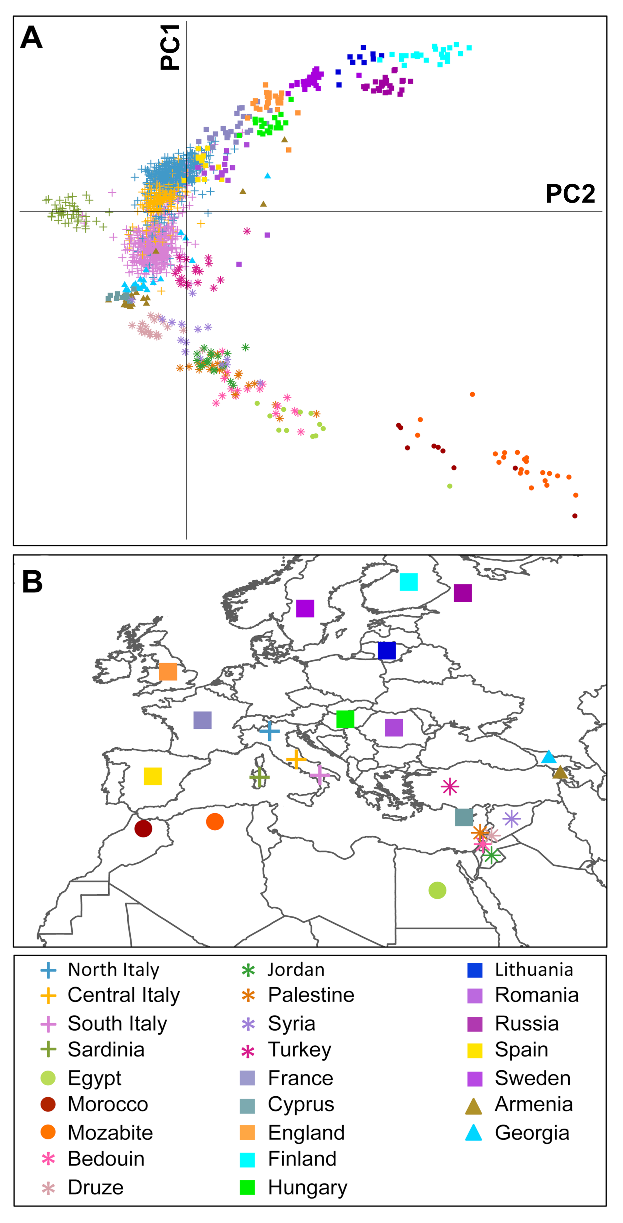 Principal Component Analysis of Italians, European and Mediterranean populations. (A) Plot of the first two principal components of the Italian population combined with populations from continental Europe and Mediterranean area; (B) geographical localization of the analyzed samples. Legend of symbols and colors used is reported below. The map of European/Mediterranean area was obtained plotting a suitable portion of the spatial world data downloaded from .